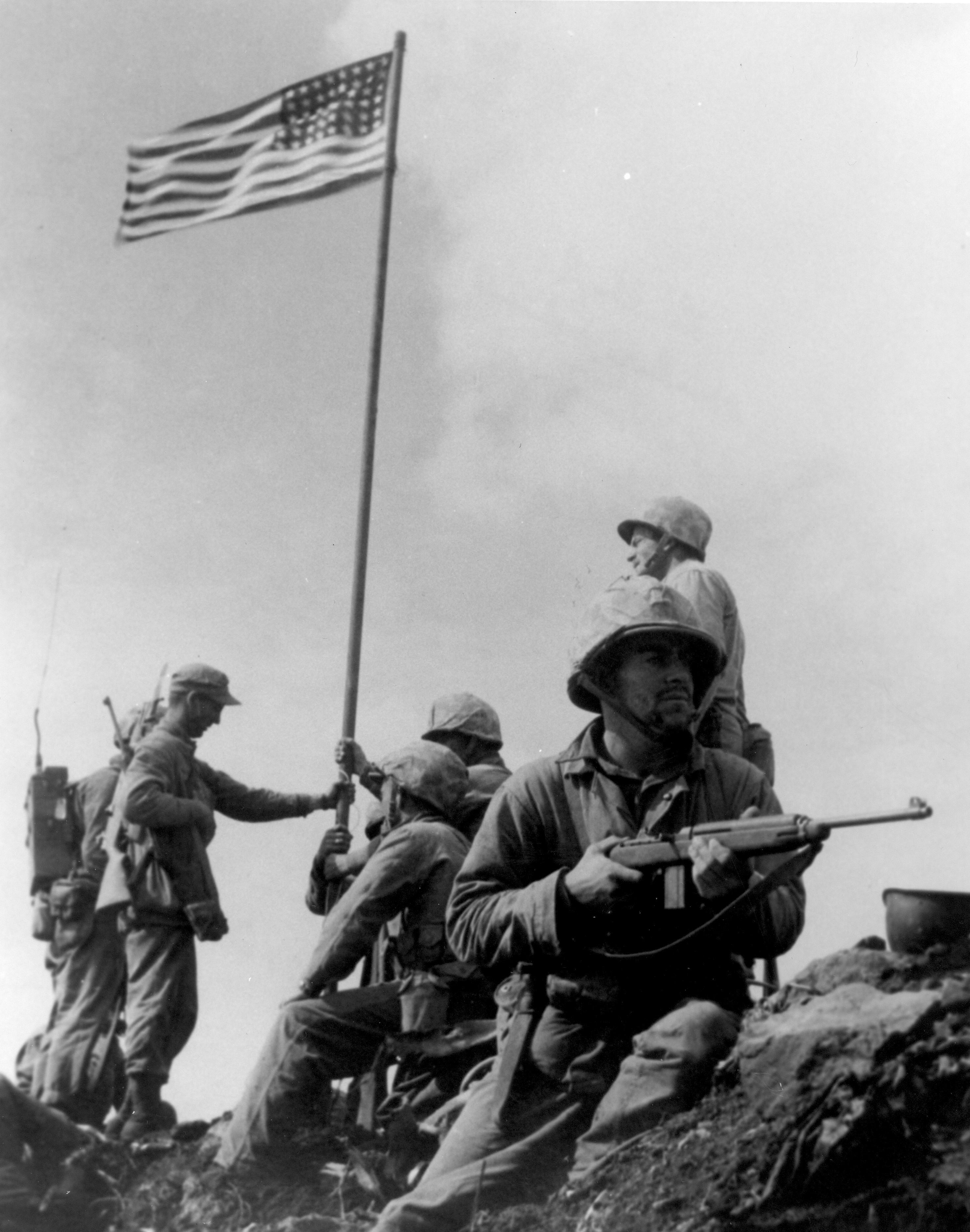 First Iwo Jima Flag Raising. Small flag carried ashore by the 2d Battalion, 28th Marines is planted atop Mount Suribachi at 1020, 23 February 1945 This picture is usually captioned as: 1st Lieutenant Harold G. Schrier with Platoon Sergeant Ernest I. Thomas, Jr. (both seated), PFC James Michels (in foreground with carbine), Sergeant Henry O. Hansen (standing, wearing soft cap), Corporal Charles W. Lindberg (standing, extreme right), on Mount Suribachi at the first flag raising. However, PFC Raymond Jacobs disputed these identifications,[1] and asserted that it should be: PFC James Robeson (lower left corner; not visible in this cropped version of the photo), Lieutenant Harold Schrier (sitting behind his legs), PFC Raymond Jacobs (carrying radio), Sergeant Henry Hansen (cloth cap), unknown (lower hand on pole), Sergeant Ernest Thomas (back to camera), Phm2c John Bradley (helmet above Thomas), PFC James Michels (with carbine), Cpl Charles Lindberg (above Michels).